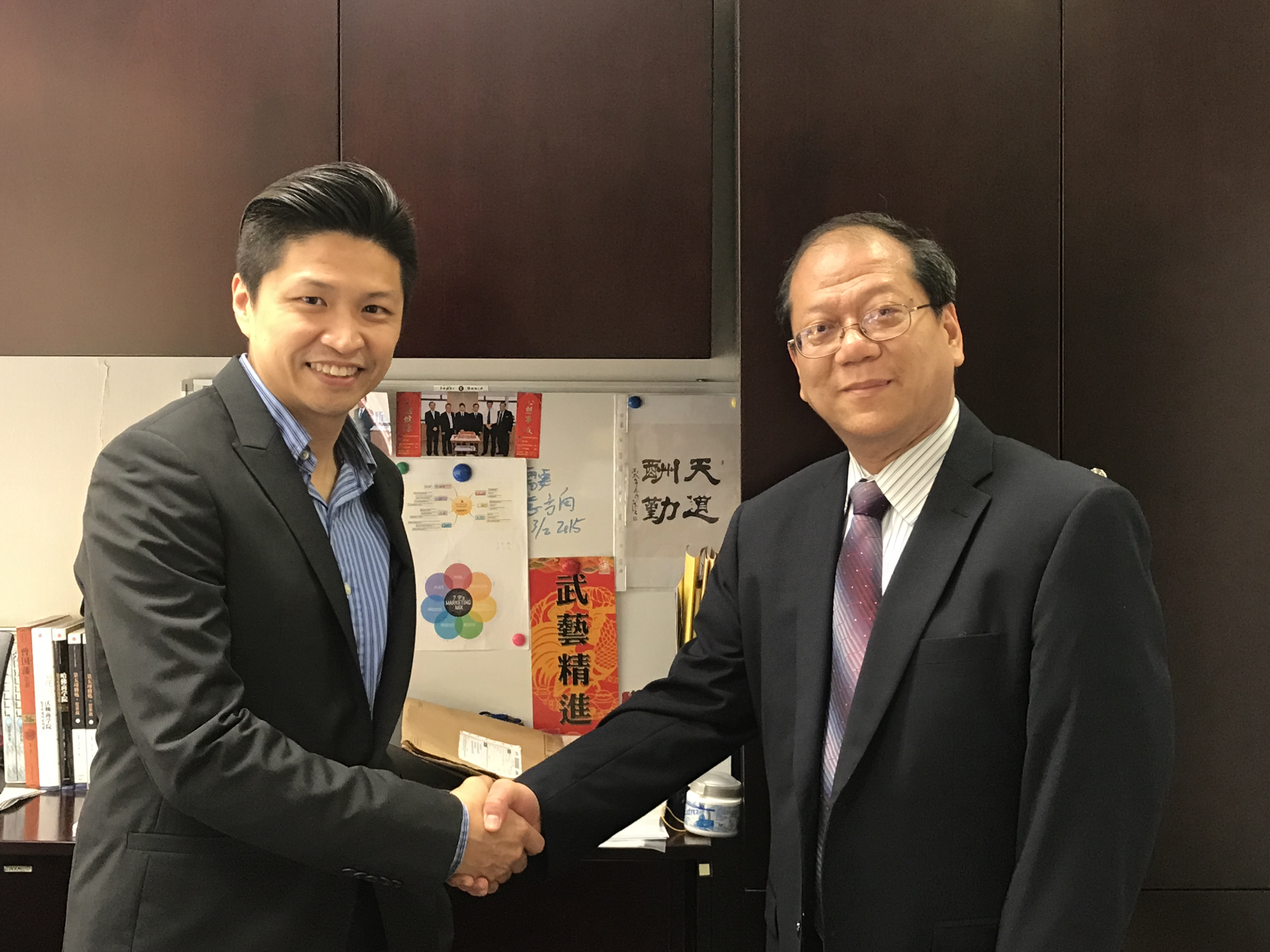 Ka Ho with Mr. Ma